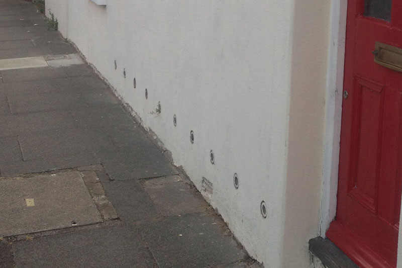 Porous tubes installed in a house in an attempt to deal with a rising damp problem.